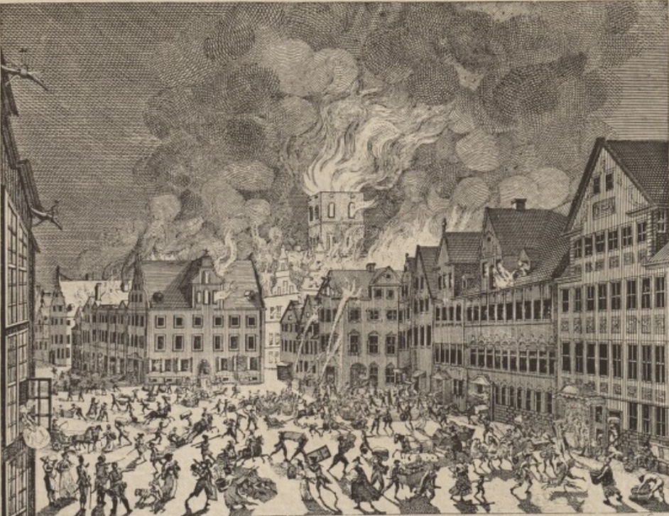 Amagertorv during the Copenhagen Fire of 1795 in Copenhagen, Denmark